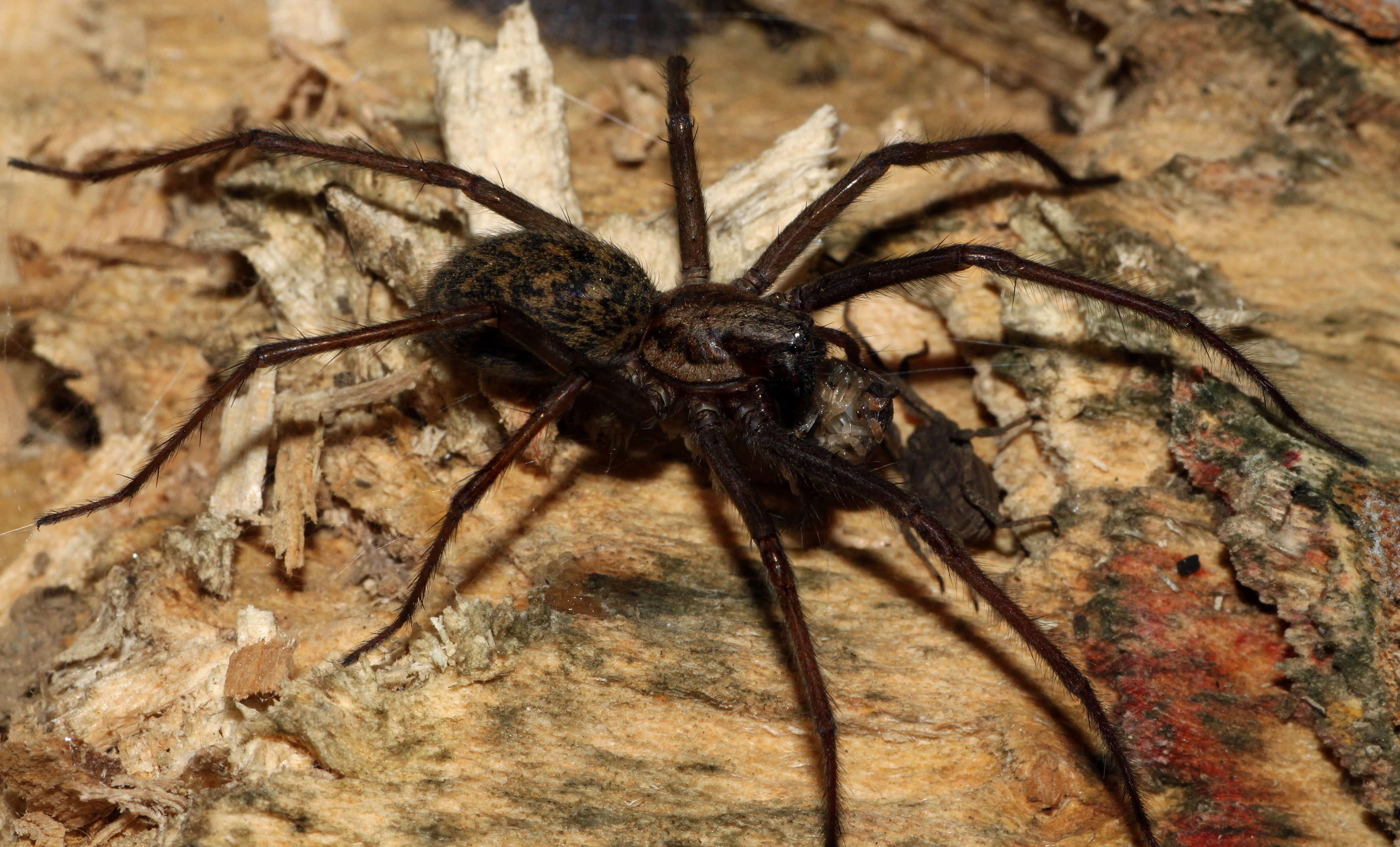 Tegenaria atrica, Family: Agelenidae, Location: Southern Germany, Achstetten (Private location, therefore not geocoded)